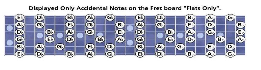 This image only display The Flats Notes or Tones on the Guitar Fret Board